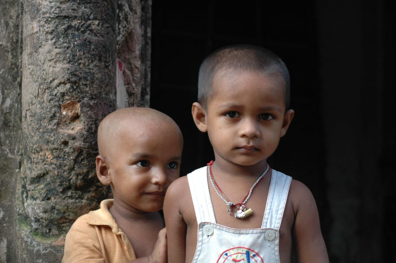 Two little children in Sonargaon, Bangladesh, looking slightly apprehensive. The eldest appears to be wearing an amulet on a necklace and a red thread, and has short hair. The youngest has a newly shorn head.